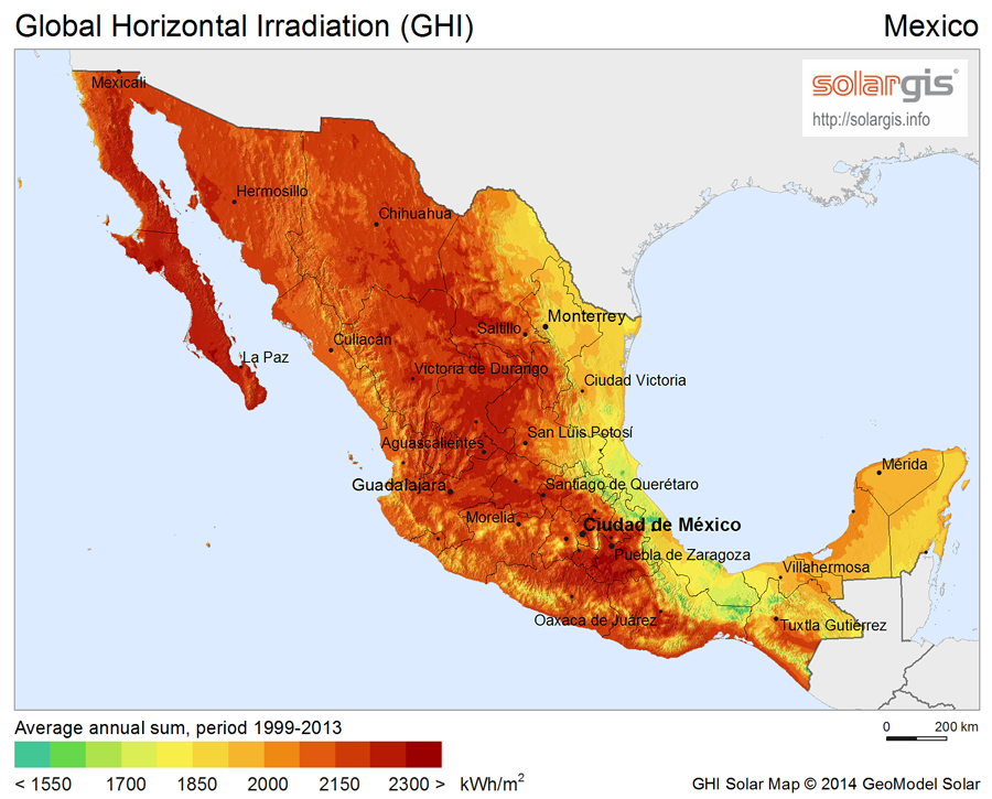 Solar Radiation Map: Global Horizontal Irradiation Map of Mexico, SolarGIS.